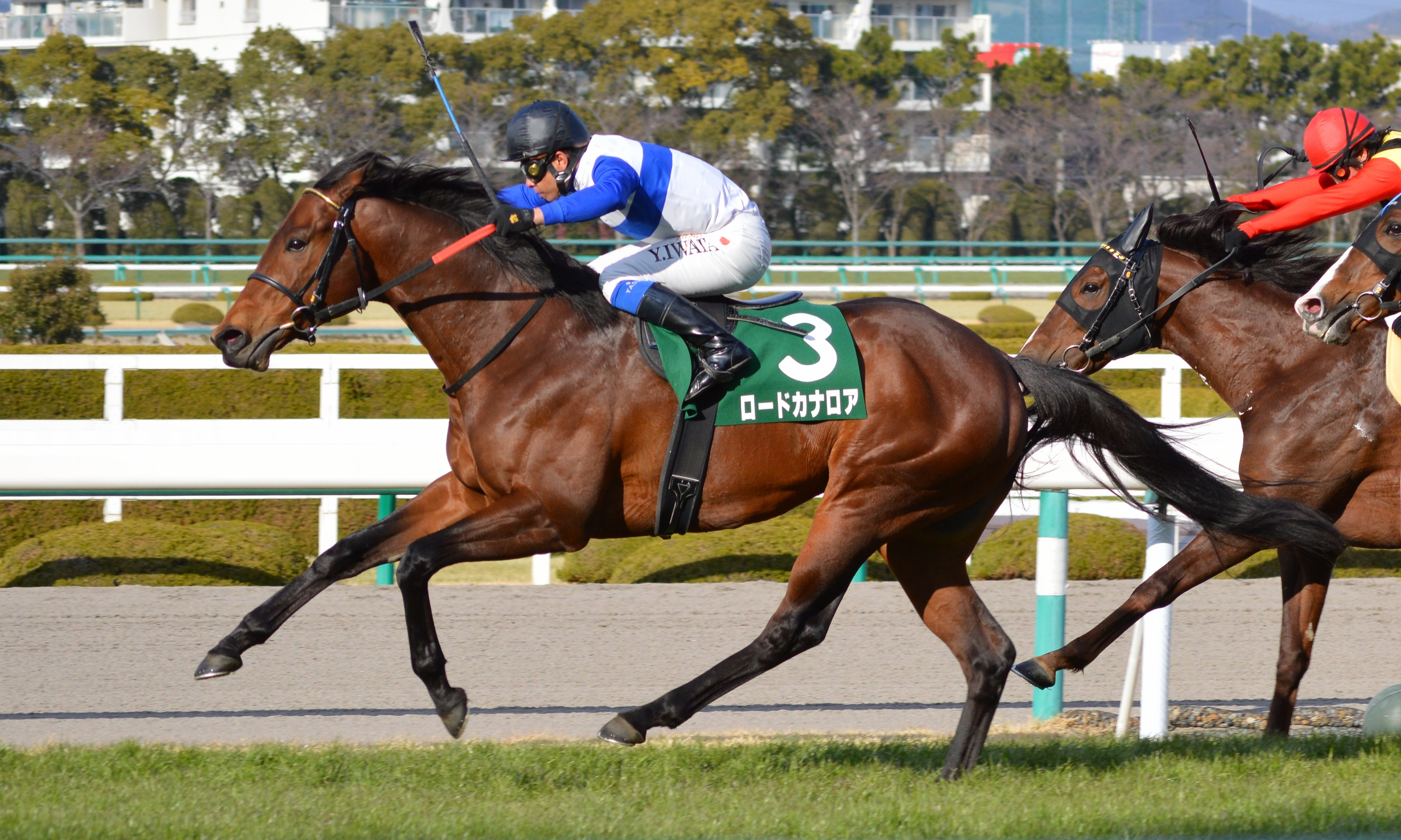 Japanese race horse Lord Kanaloa at Hanshin racecourse.